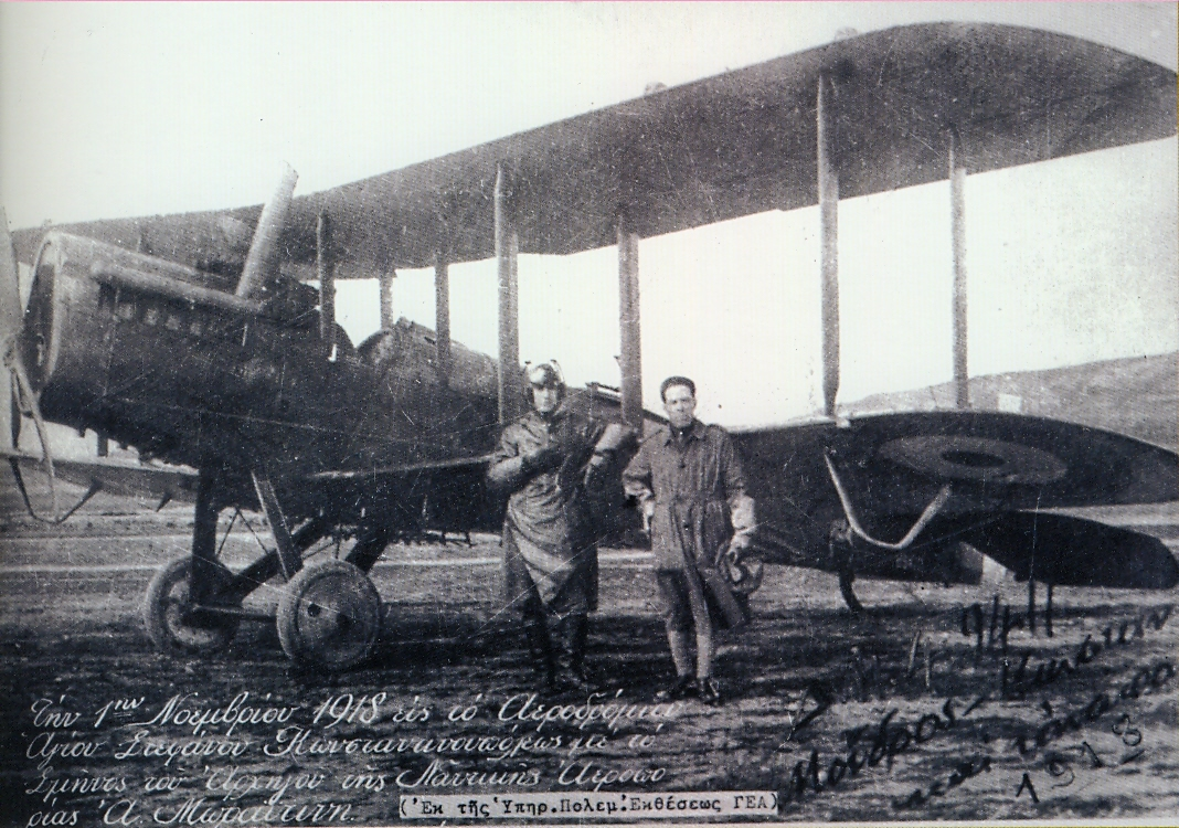 Greek aviators of the Naval Aviation Service, in San Stefano airfield. After World War I capitulation of the Ottoman Empire, 1918